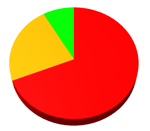 Expressed as a pie chart in the Ishikawa gubernatorial election in 2014, the number of votes for each candidate. explanatory notes ■ - Masanori Tanimoto ■ - Yuichiro Kawa ■ - Yoshinobu Kimura